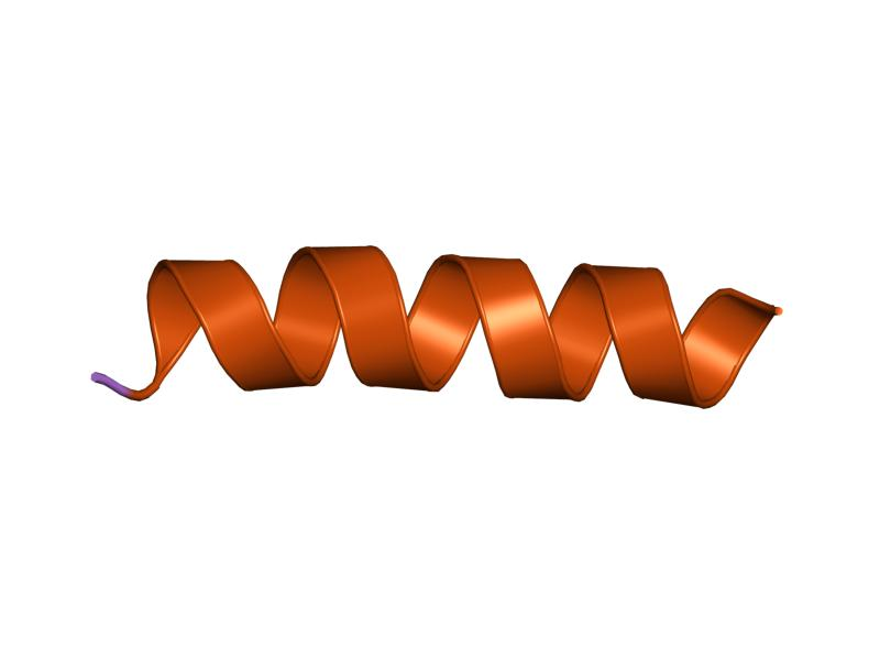 Cartoon representation of the molecular structure of protein registered with 1pje code.